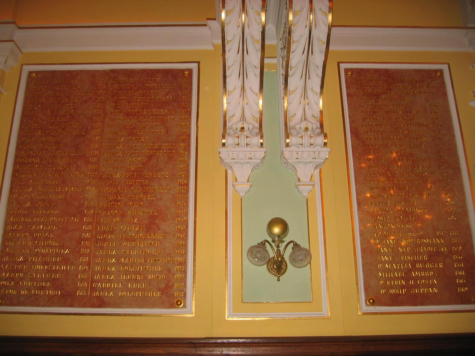 List of Ljubljana mayors at City hall, Ljubljana photo:Ziga 08:06, 23 October 2006 (UTC)